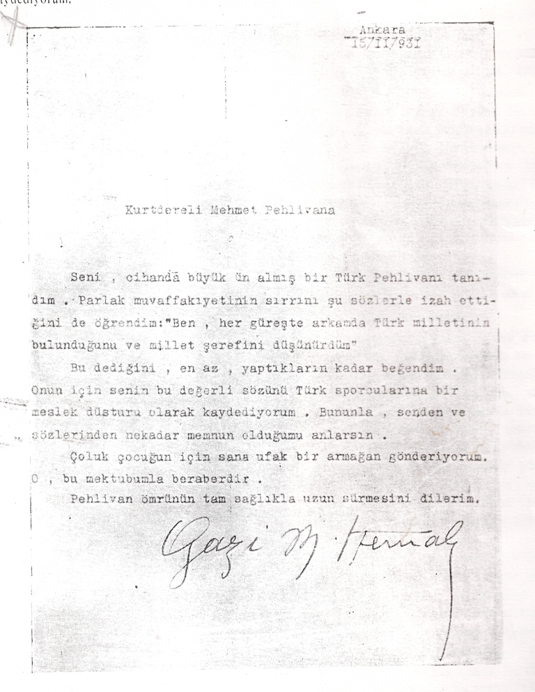 Kurtdereli and Mustafa Kemal Ataturk